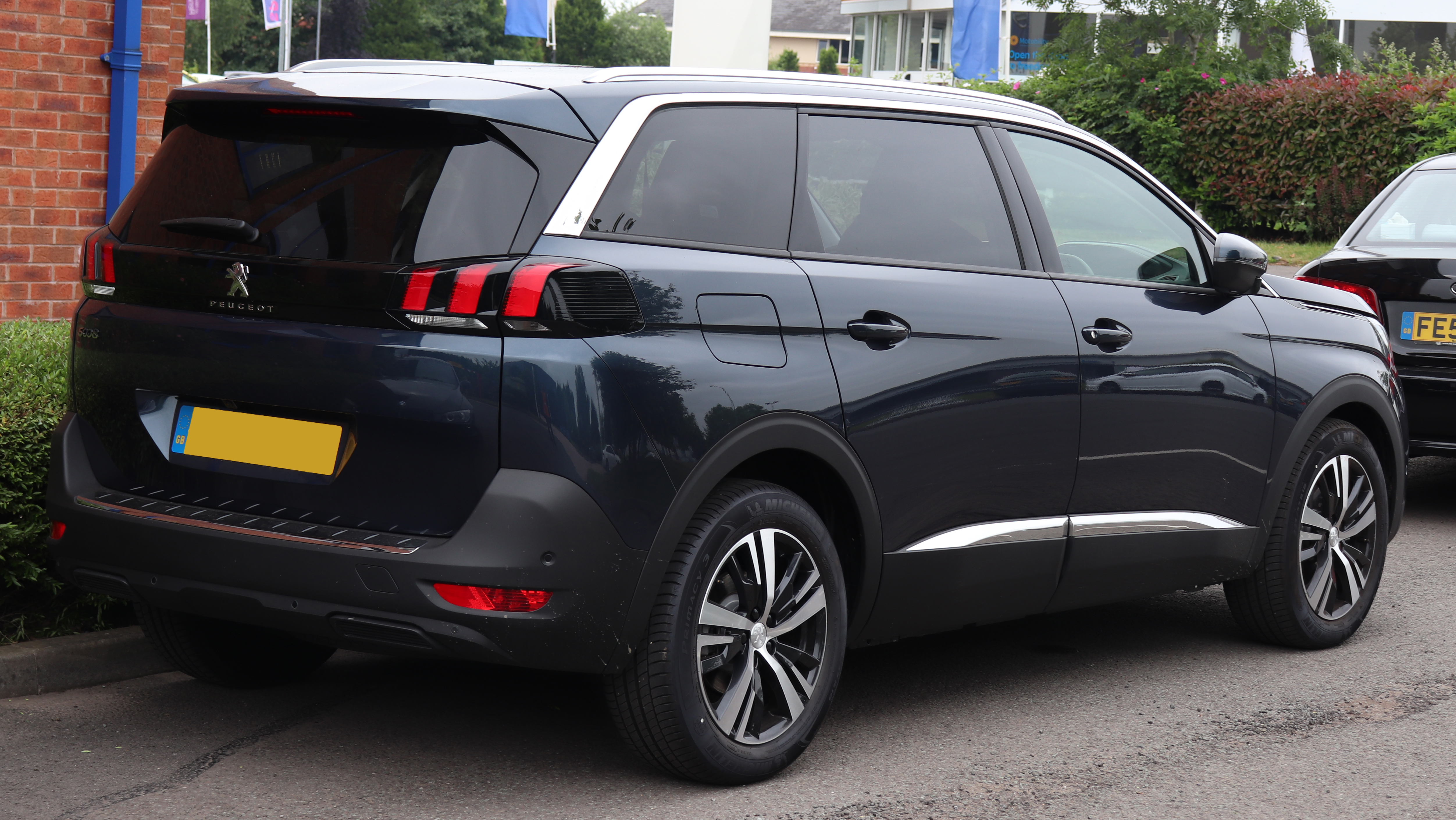 2018 Peugeot 5008 Allure Automatic 1.2 Rear Taken in Leamington Spa